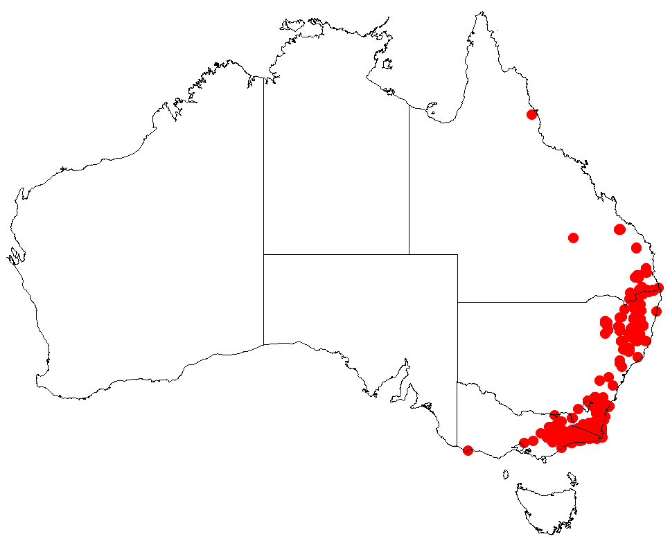 Hakea eriantha Occurrence data downloaded from Australasian Virtual Herbarium on 22 November 2018 using